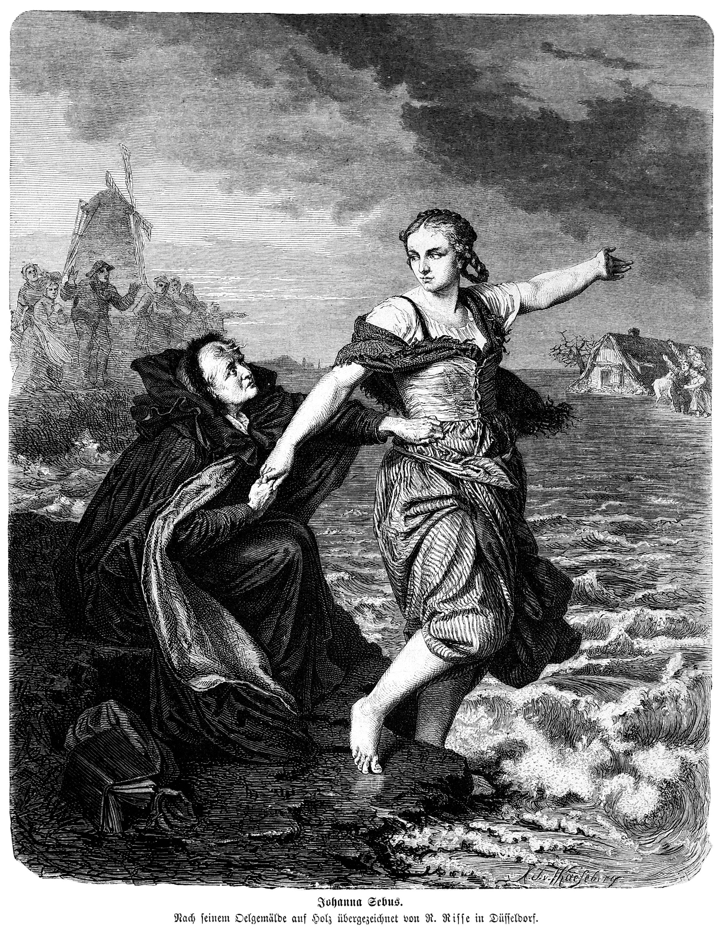 Image from page 737 of book Die Gartenlaube, 1872.